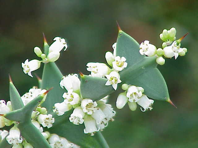 Species: Colletia cruciata Family: Rhamnaceae Image No. 5